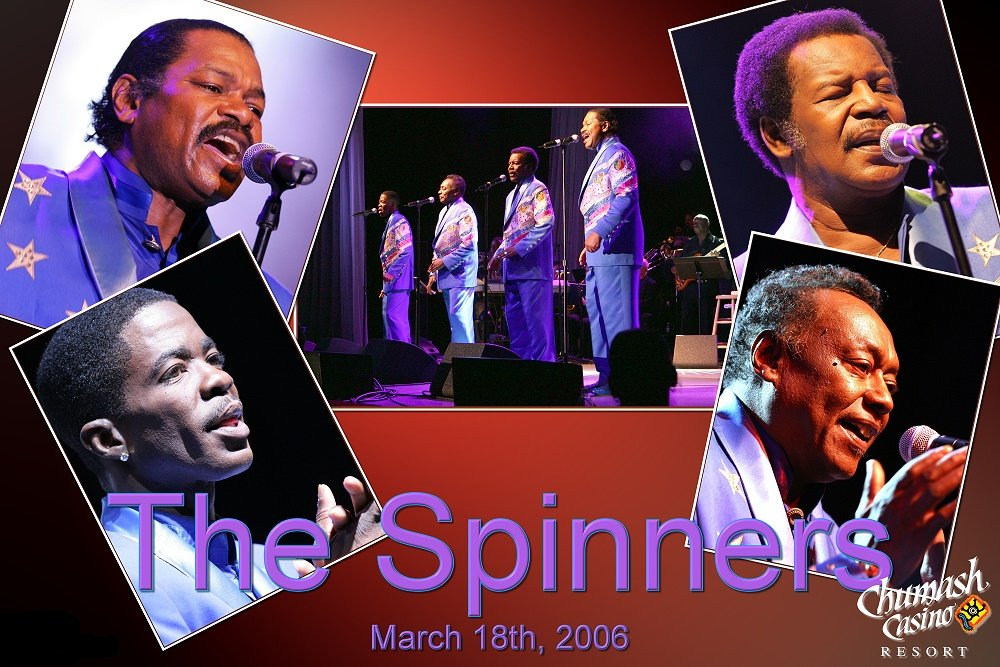 The Spinners (American band) in concert at the Chumash Casino Resort in Santa Ynez, California.